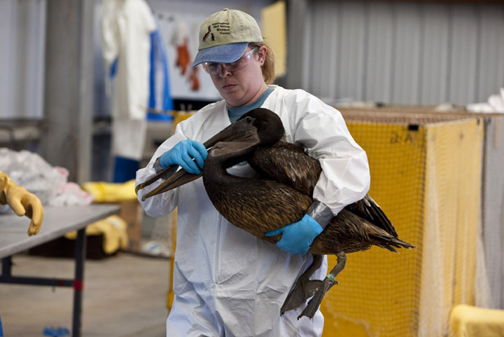 On Tuesday, May 4, the second oiled bird. a Brown Pelican is being washed Fort Jackson, LA rescue center. It was picked up in one of the remote islands in Southern Louisiana by the USFWS. The bird is in good condition.